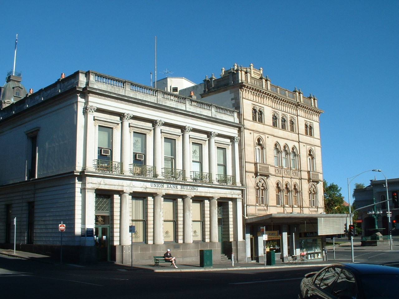 The Union Bank in Lydiard Street South, Ballarat, Victoria, Australia. The bank was designed by Leonard Terry and built in 1863-64.